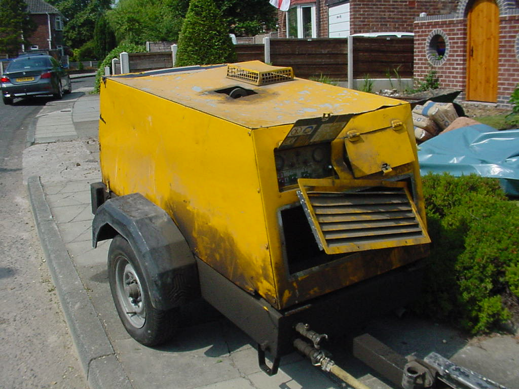 I took this photo. Compressor for running a pneumatic drill / jackhammer off.